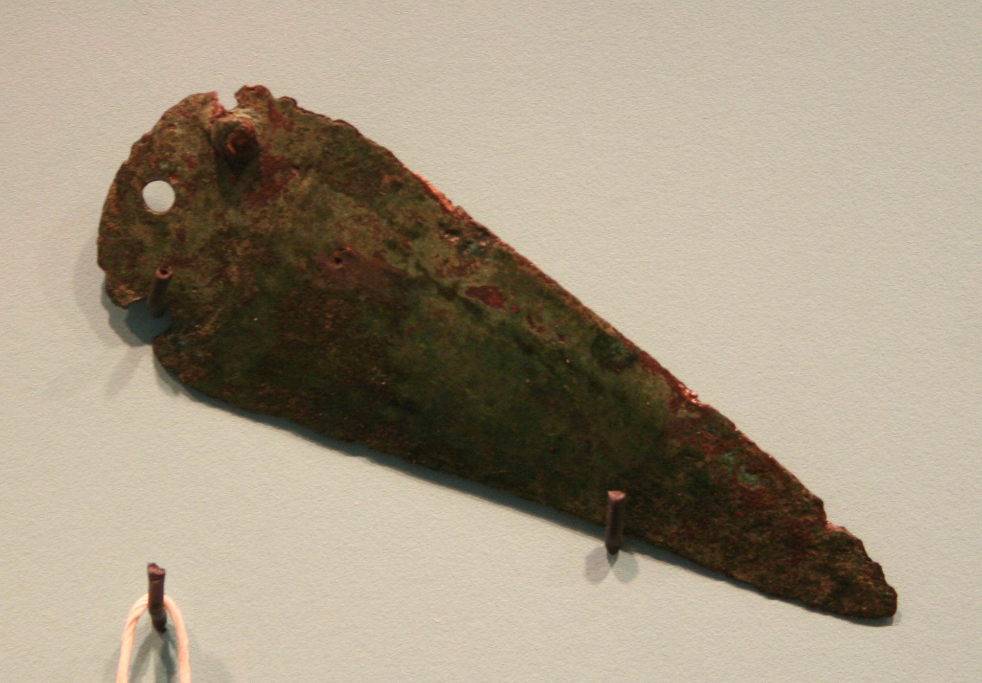 Museum für Vor- und Frühgeschichte (Museum of prehistory and early history), Berlin